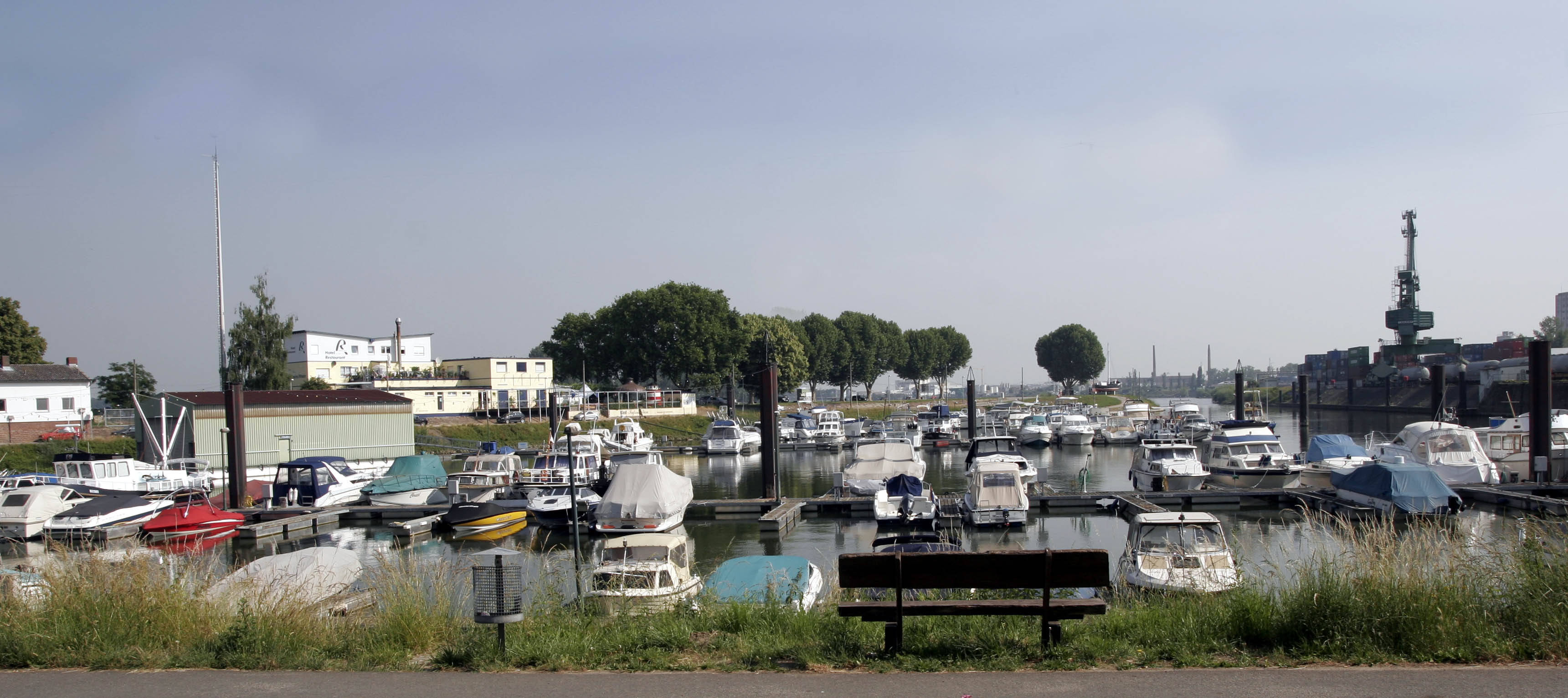 The Rhine harbor of Gernsheim (Germany).